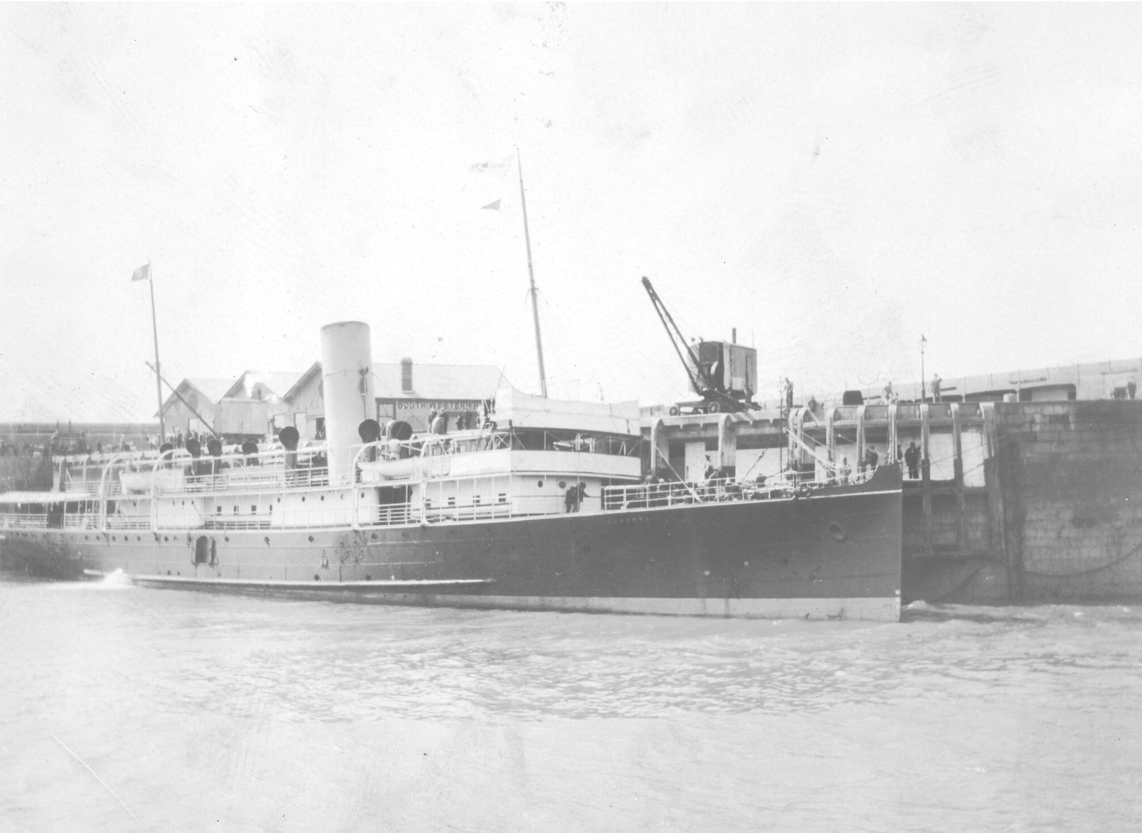 Photo taken by KN Pearson on his trip to the Channel Islands from Southampton. Note, South Western Railways terminal behind